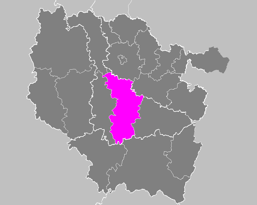 Maps of arrondissements and cantons of France: Arrondissement de Nancy.PNG